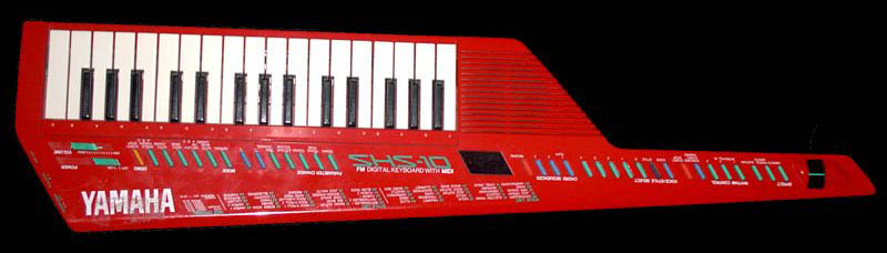 Rotate of Image:keytar.jpg